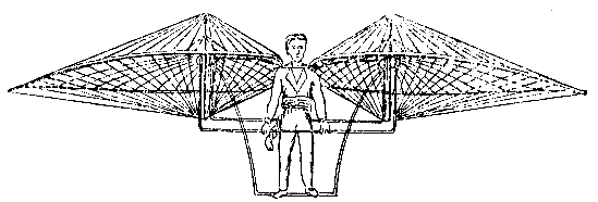 J. Degan's ornithopter, 1812